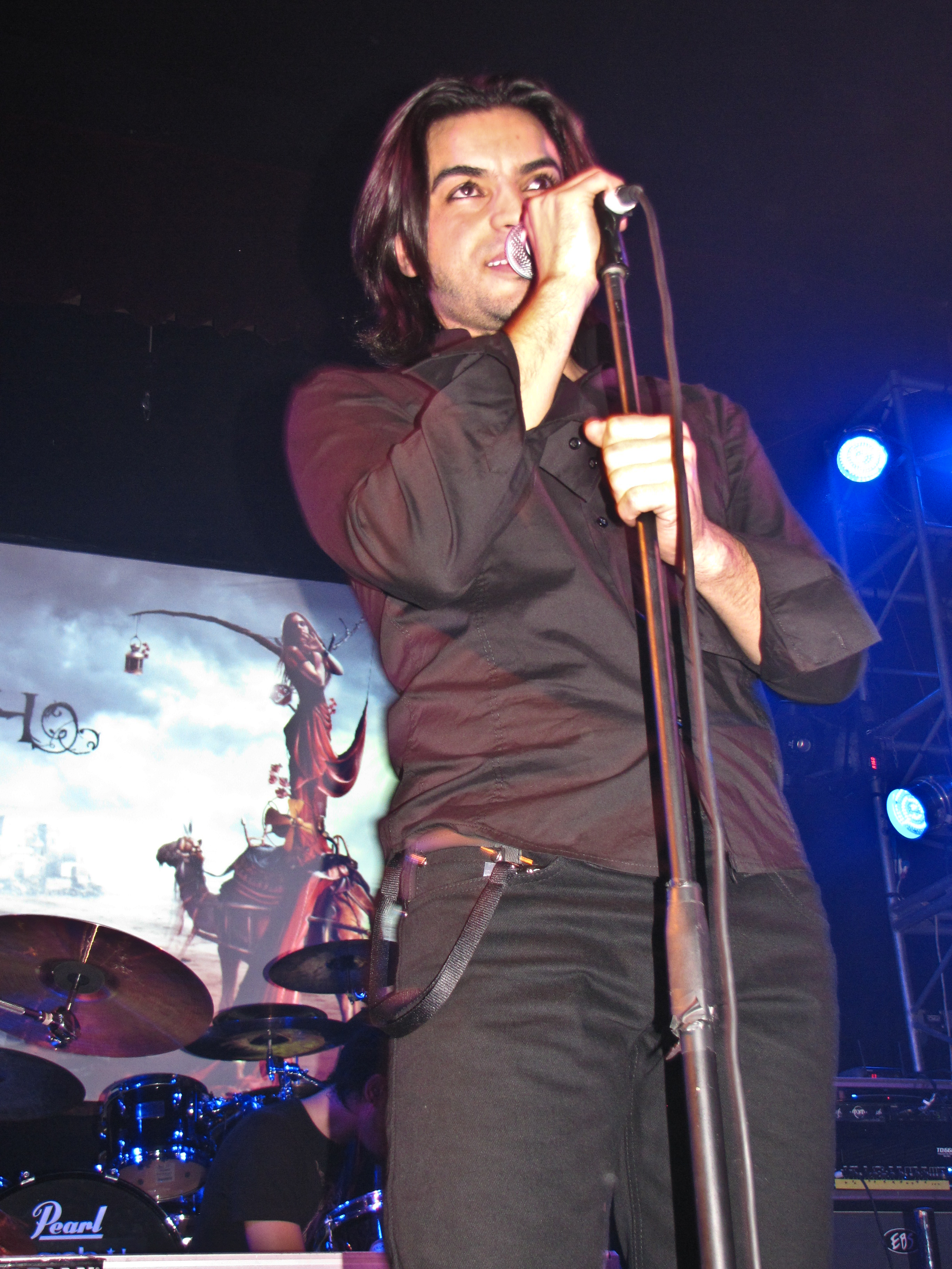 Singer Zaher Zorgati with Myrath in 2011.